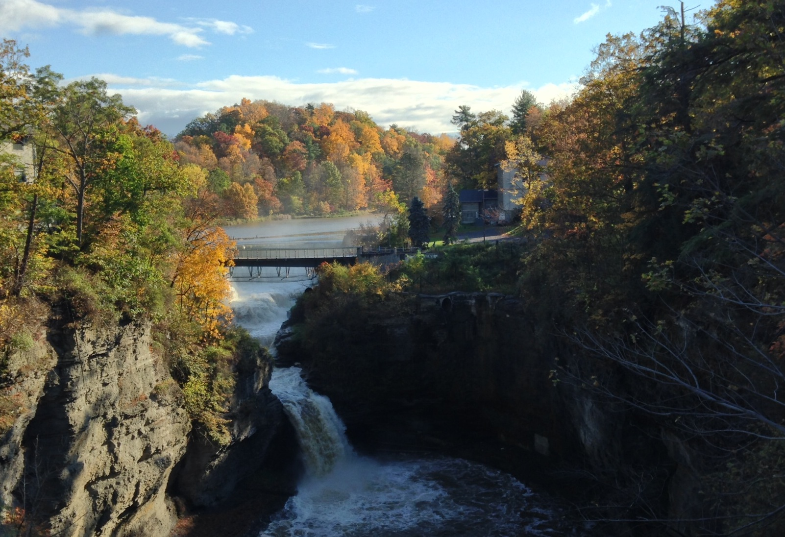 Beebe Lake waterfall at the Cornell Gorges